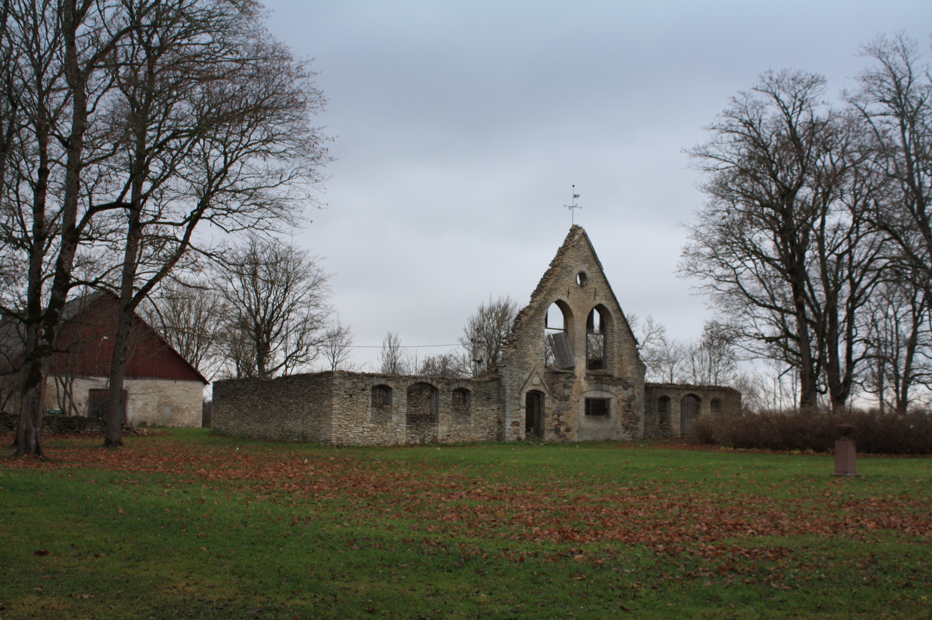 Ohtu manor stable